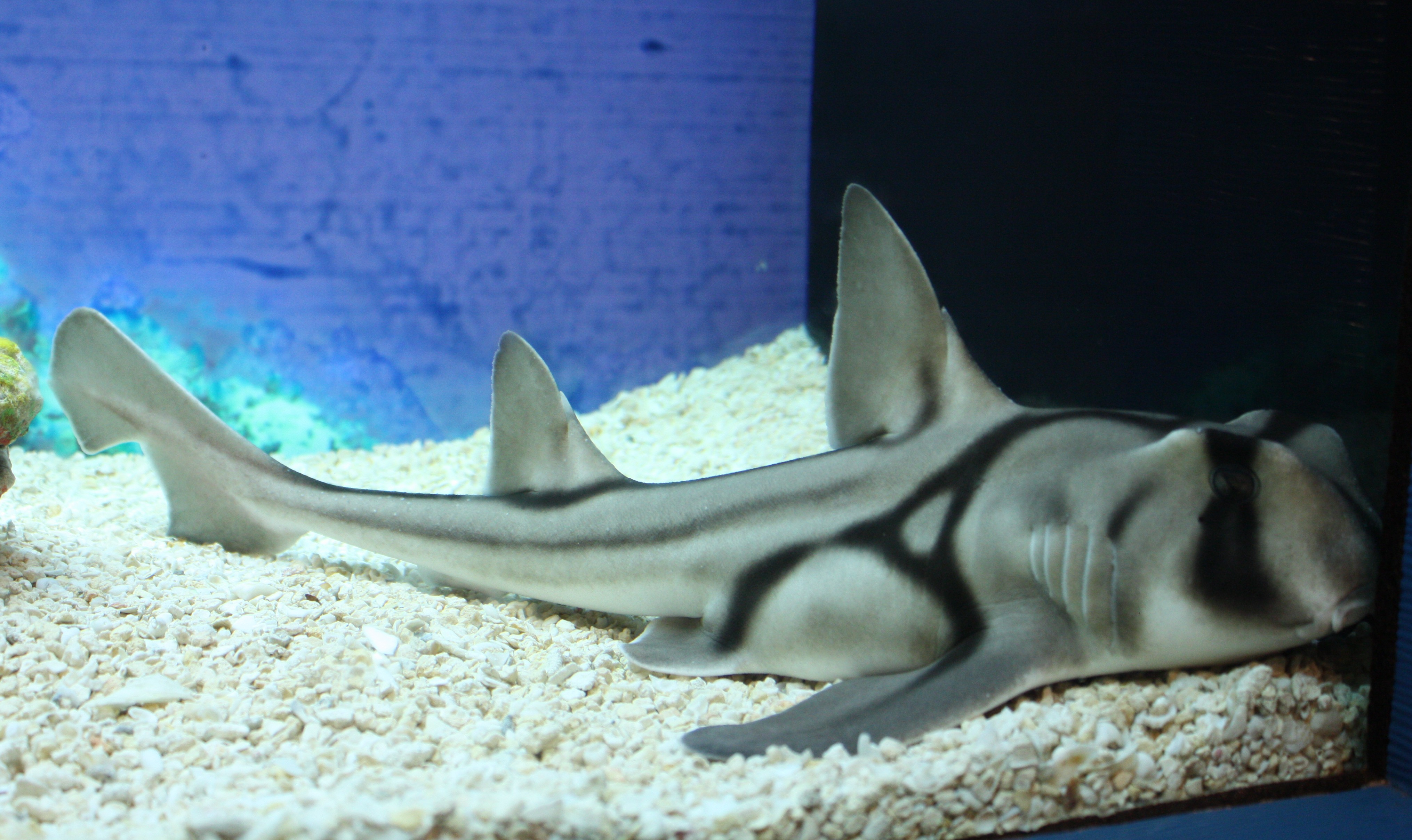 Shark in Shanghai Aquarium